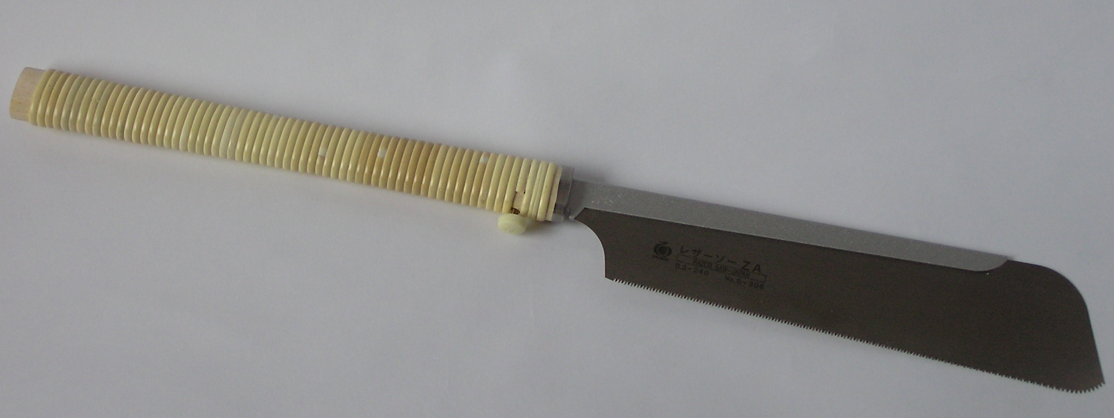 Japanese Saw named Dozuki